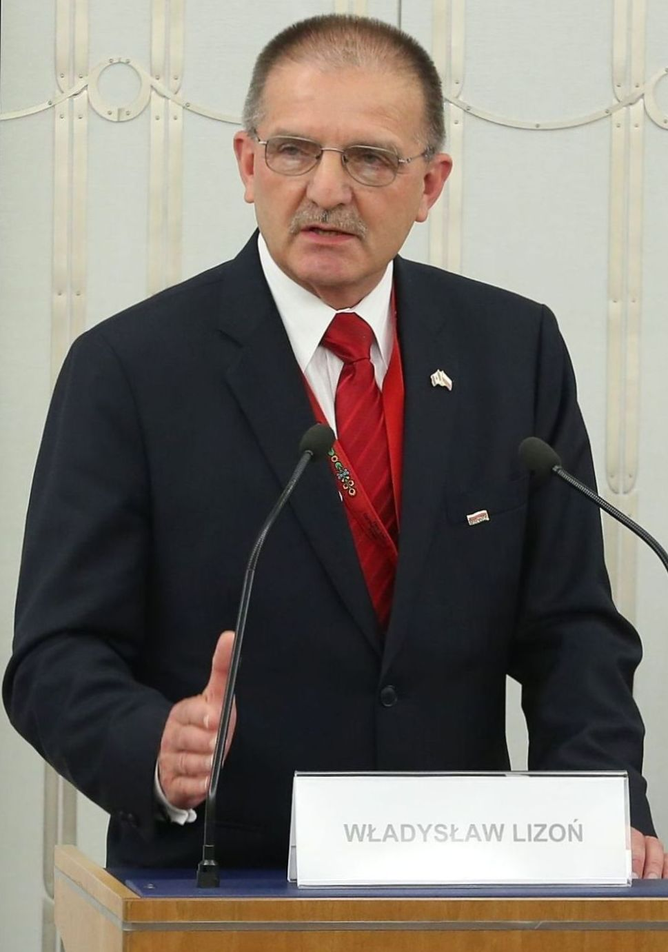 Deputy of the House of Commons of Canada Wladyslaw Lizon. Meeting of parliamentarians to commemorate 25th anniversary of freedom (Poland's 1989 general elections) in the Polish Senate